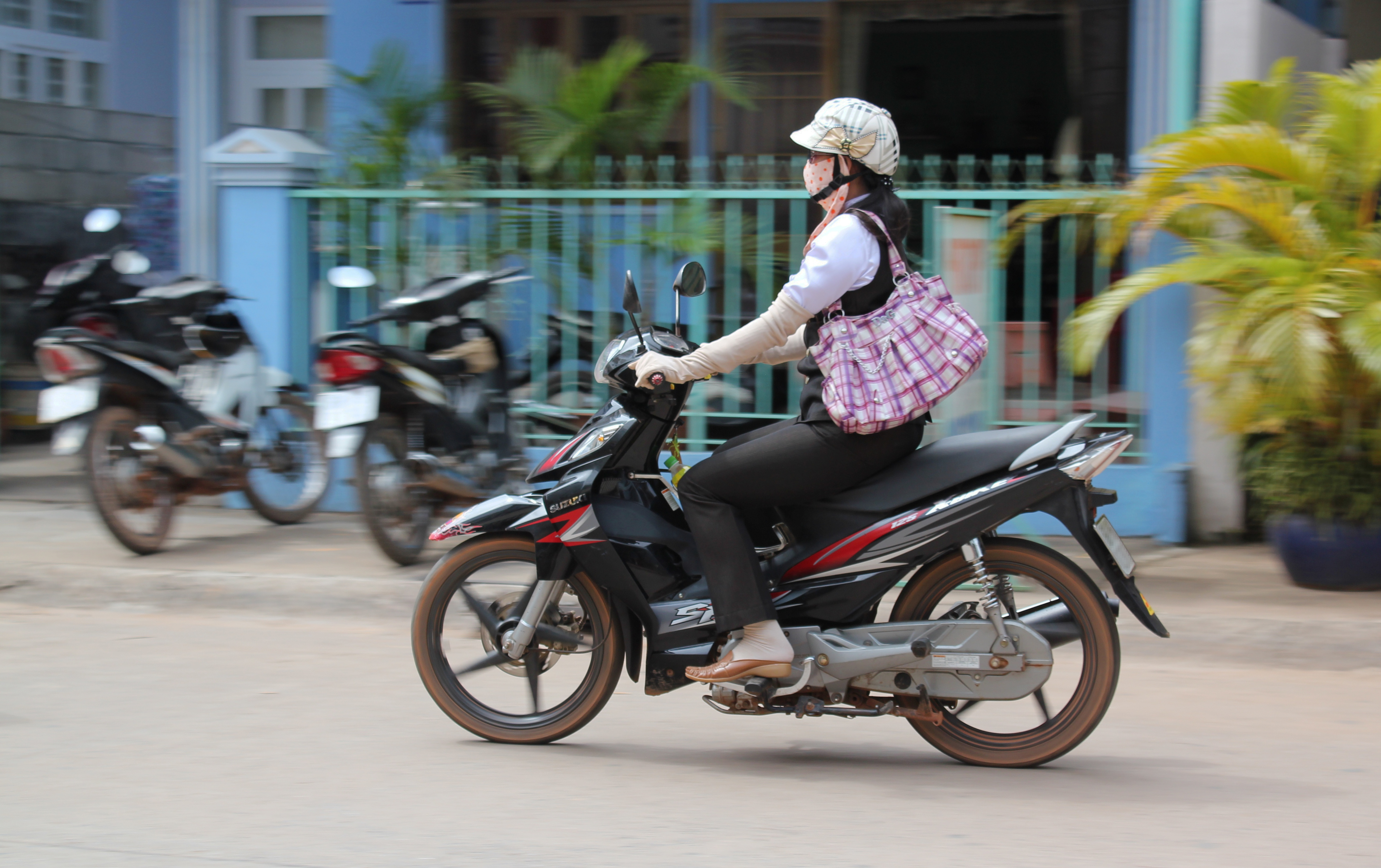 A woman riding a motorcycle in Dương Đông, Phú Quốc, South Vietnam. She wears long gloves and a hat to protect her skin from the sun, despite the heat (around 30°C).